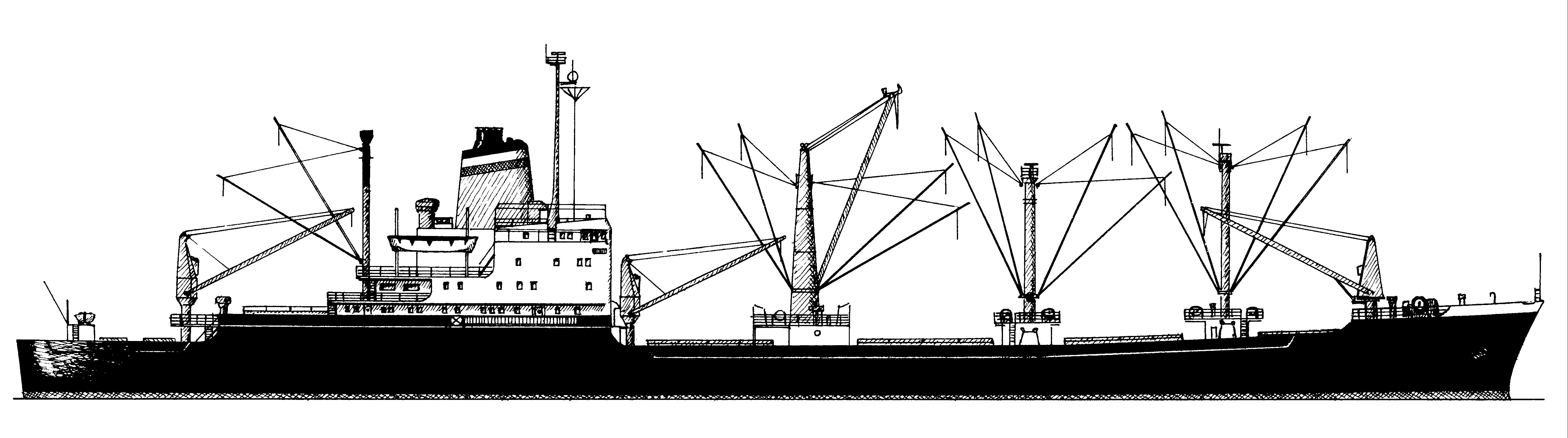 FRIESENSTEIN in Hapag-Lloyd livery